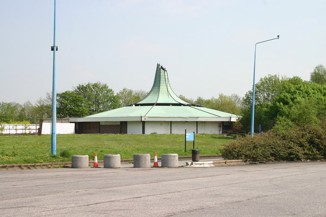 Burtonwood services station, near Burtonwood, Warrington, Great Britain; designed by the architect Patrick Gwynne.